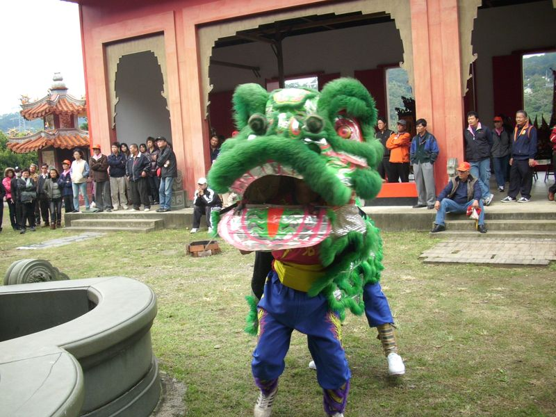 A lion dance group in Tanzi District, Taichung中文（台灣）: 位在臺中市潭子區拳兒兩廣醒獅團。